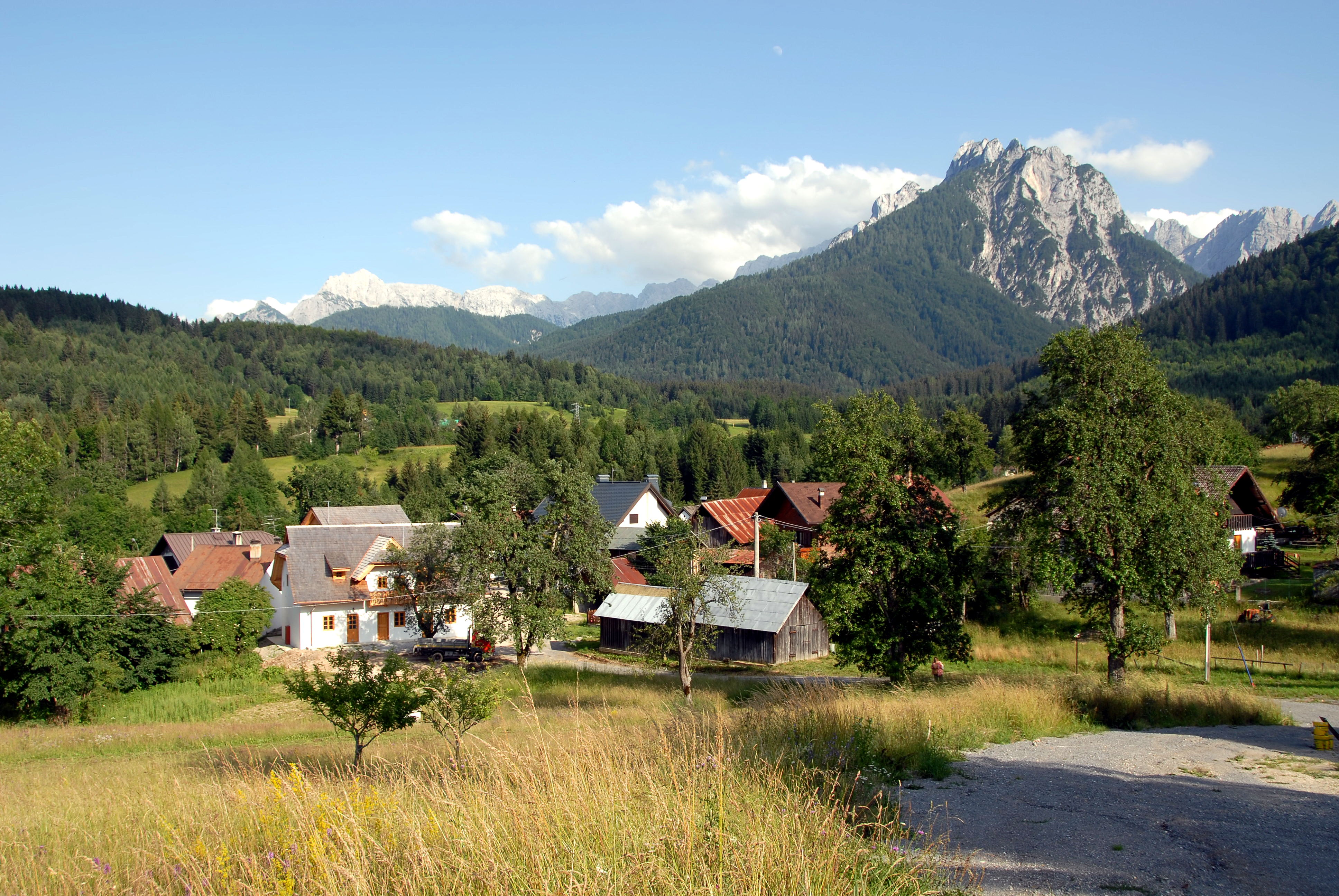 Rutte Piccolo at the locality Rutte Grande in the communitiy Tarvisio, region Friuli Venezia-Giulia, Italy